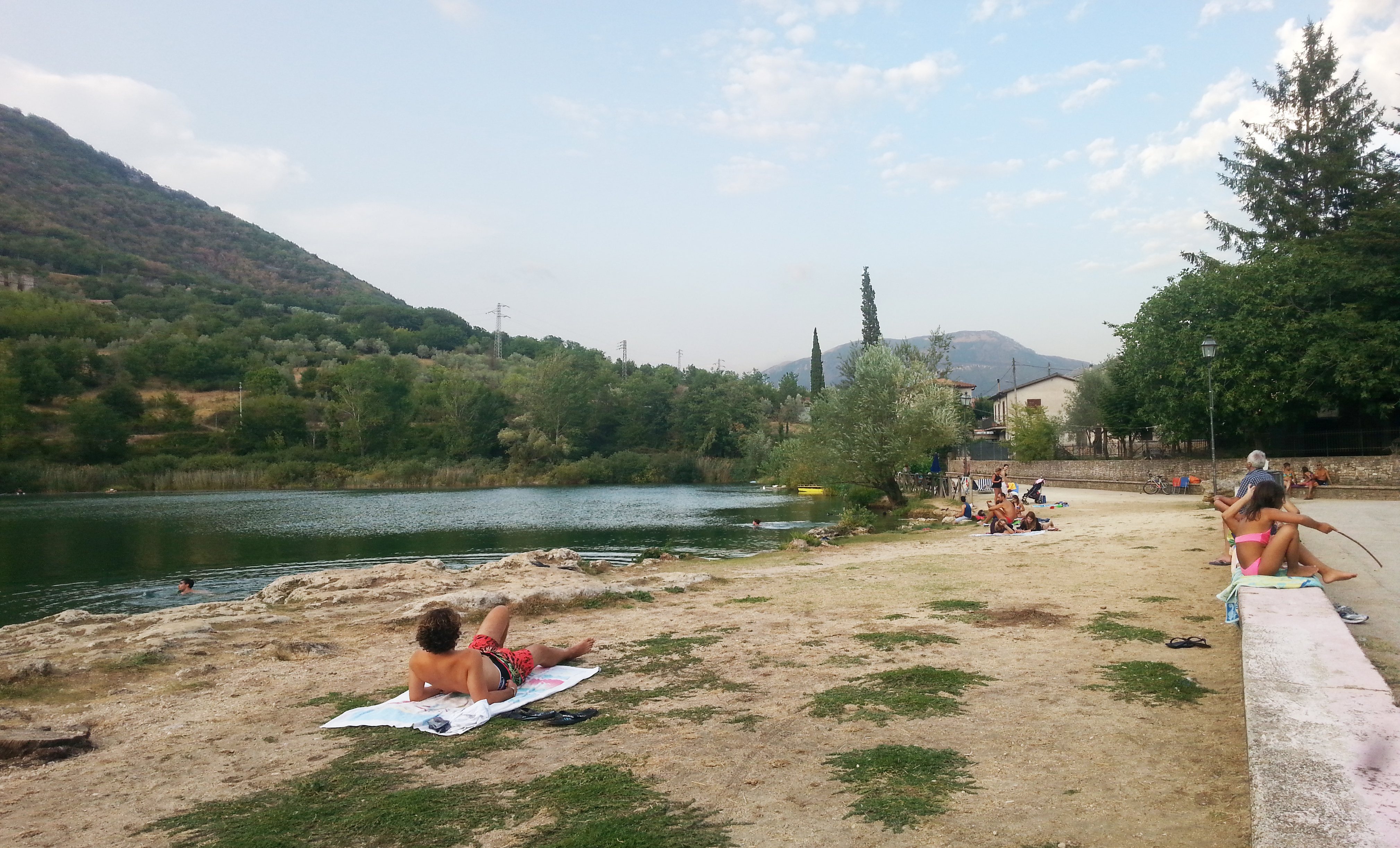 Lake of Paterno or Lake of Cutilia - province of Rieti, central Italy